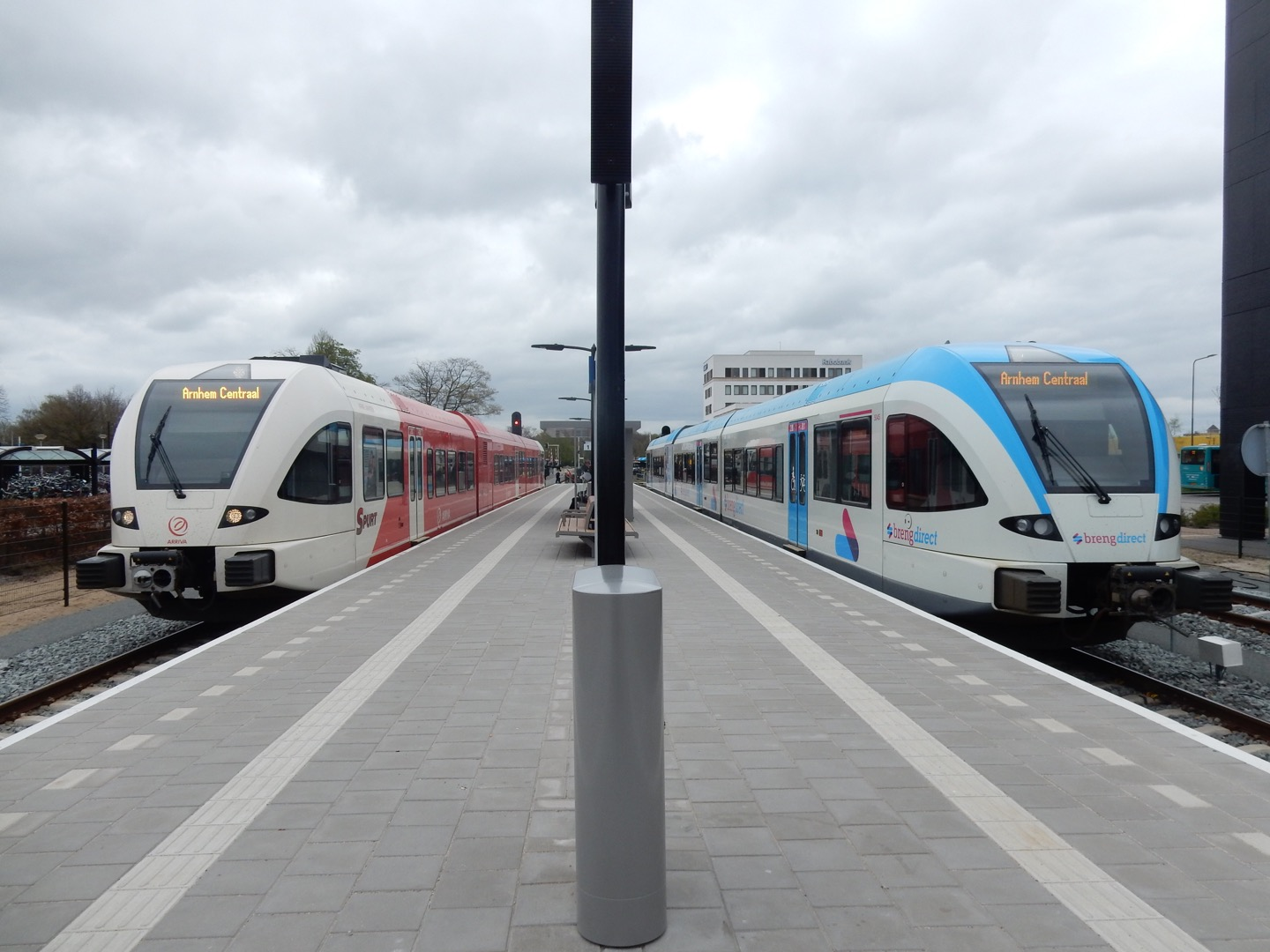 GTW trains of Arriva and Breng in Doetinchem